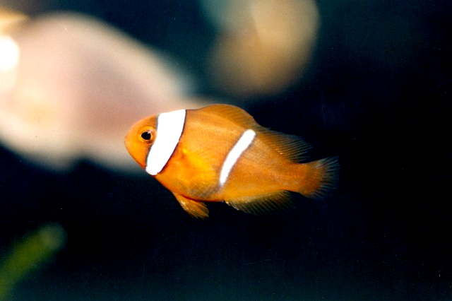 Amphiprion bicinctus (Rüppell, 1830)